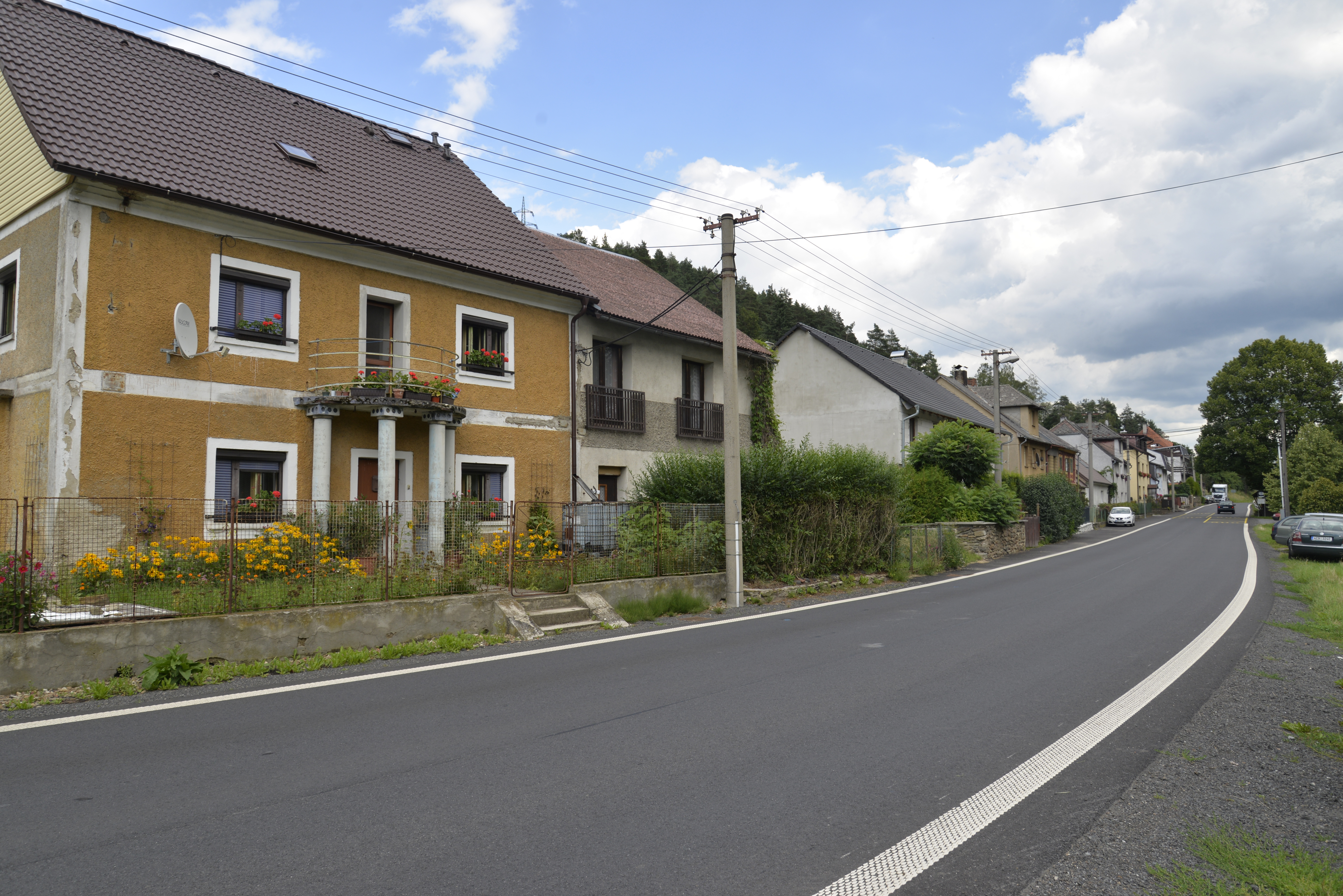 Františkova Ves, small village, part of Petrovice u Sušice in Klatovy District, No. 16